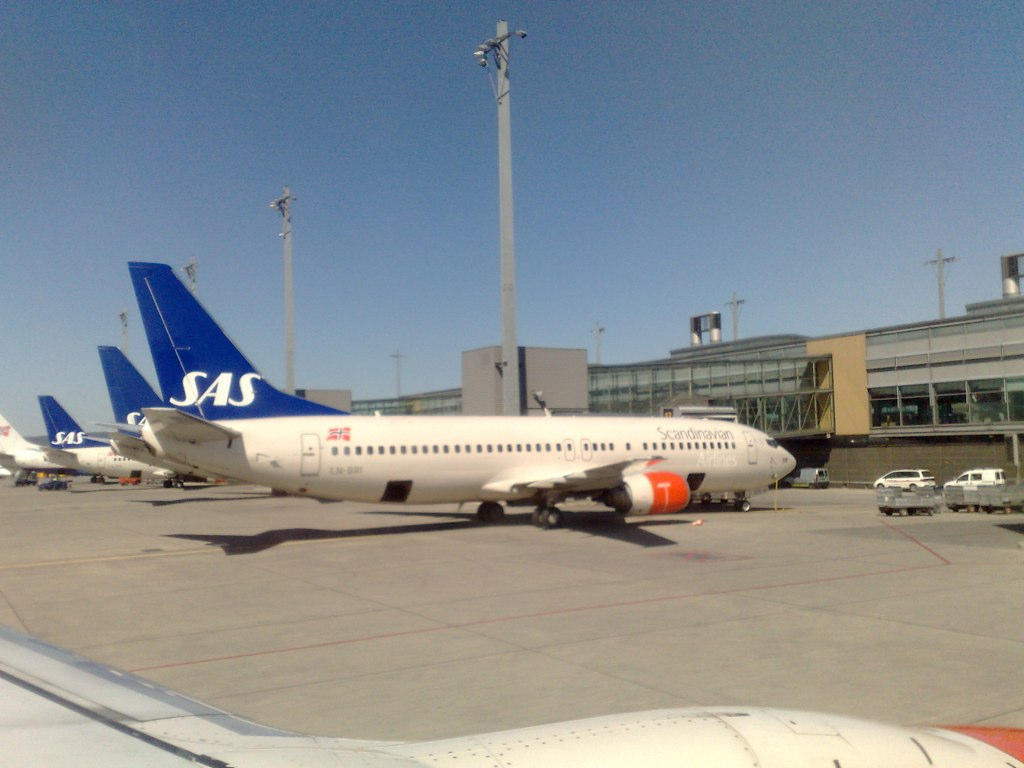 Three SAS aircraft at Oslo Airport, Gardermoen. The closest is a 737-400